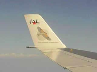 Winglet of Japan Air Lines McDonnell Douglas MD-11 (JA8585)